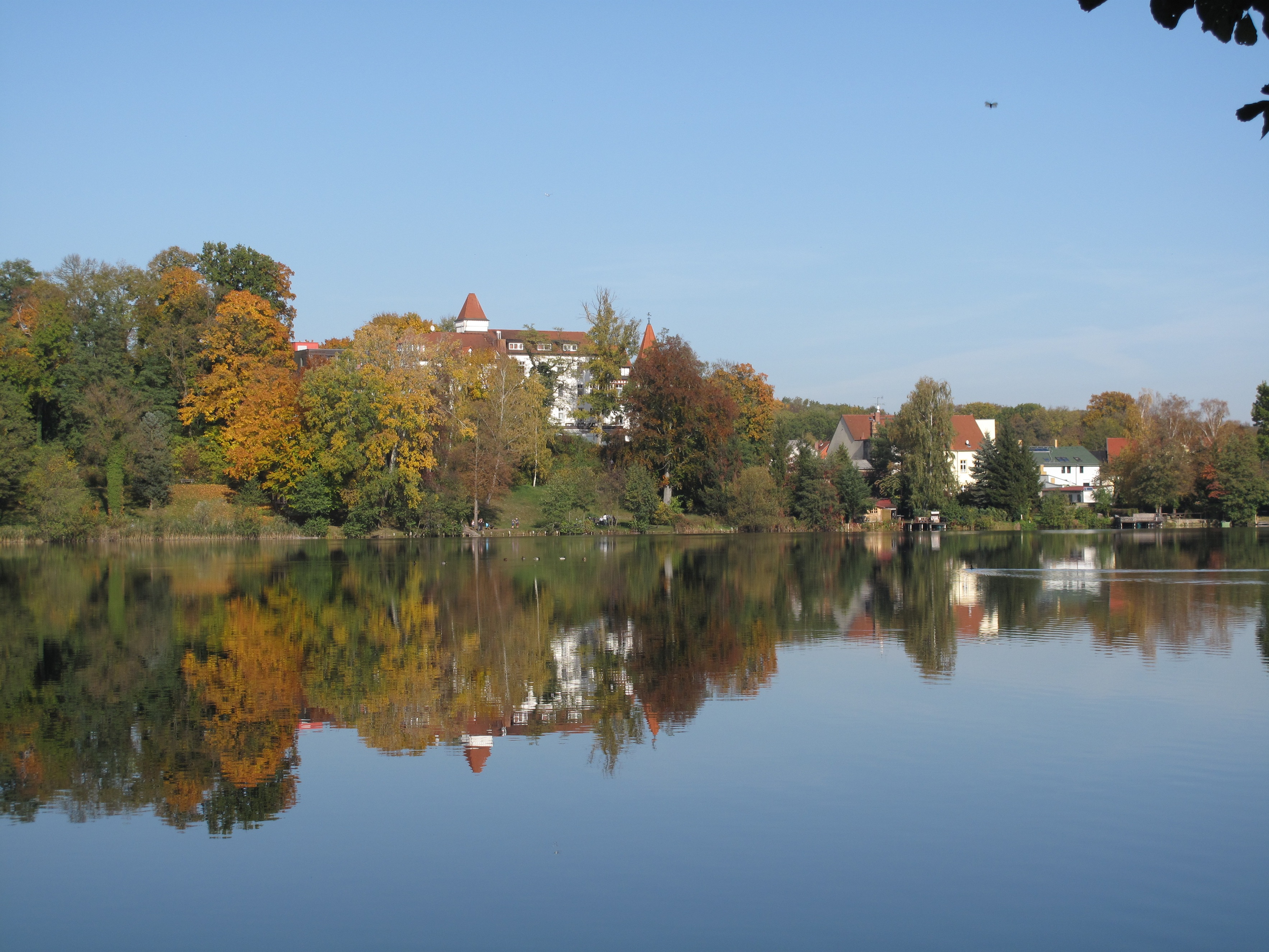 View of the western shore of the Buckowsee to the northern shore with the Reha-Klinik „Waldfrieden“ für Mutter und Kind (german for: Physical medicine and rehabilitation-clinic „Woodpeace“ for mother and child). The Buckowsee is a lake in Buckow, District Märkisch-Oderland, Brandenburg, Germany. The lake covers 14 hectare and has a depth of max. twelve meters. It is crossed by the river Stobber. In the west border the Kurpark Buckow (german for: Spa Park) and the Lunapark to the lake. The lake is situated in the hill country „Märkische Schweiz“ and in the Märkische Schweiz Nature Park.